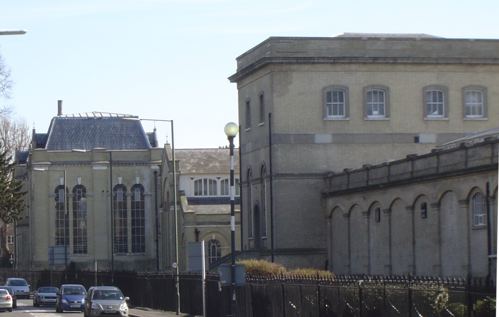 Hampton Water Works buildings alongside main road